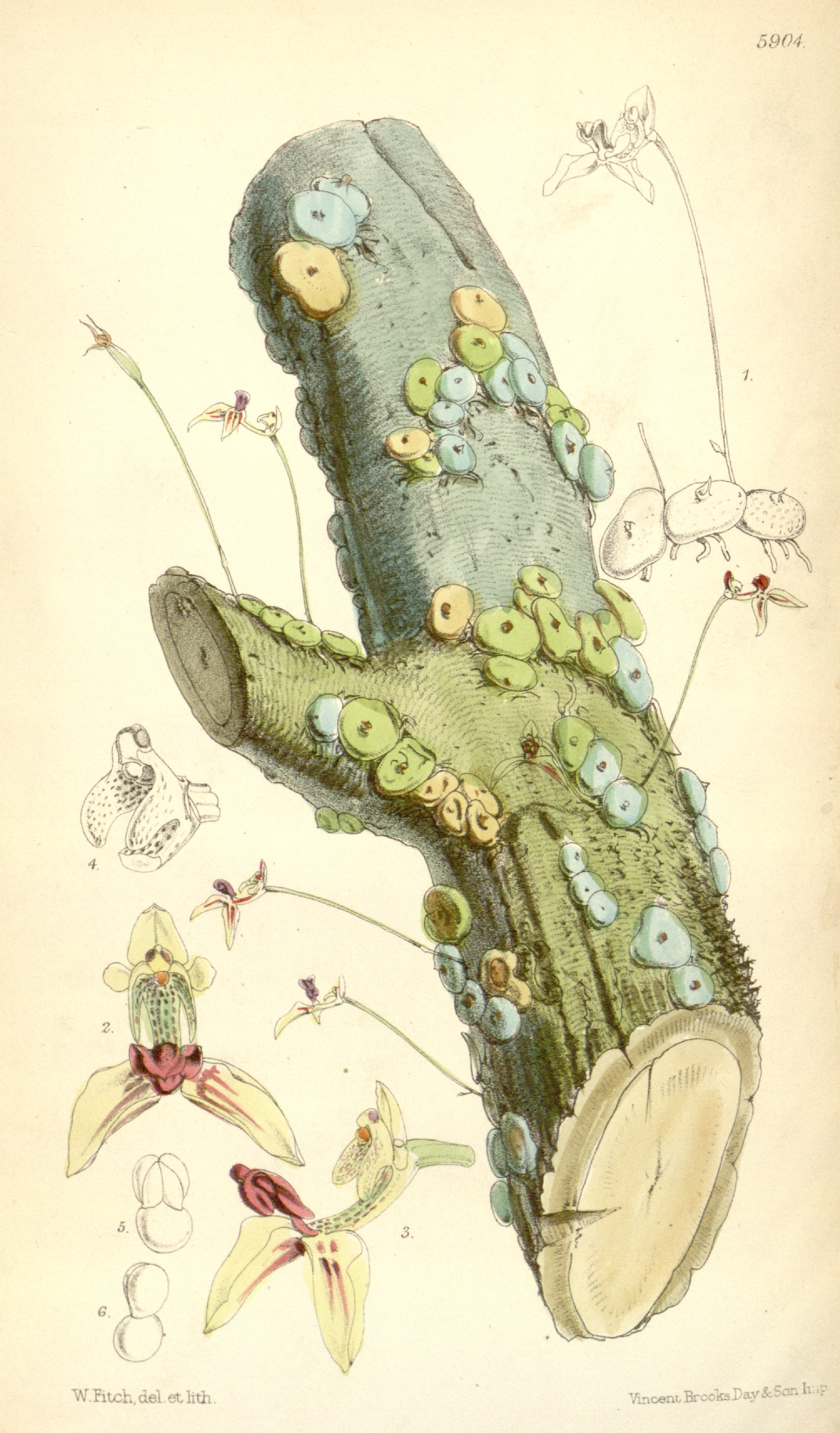 Illustration of Drymoda picta